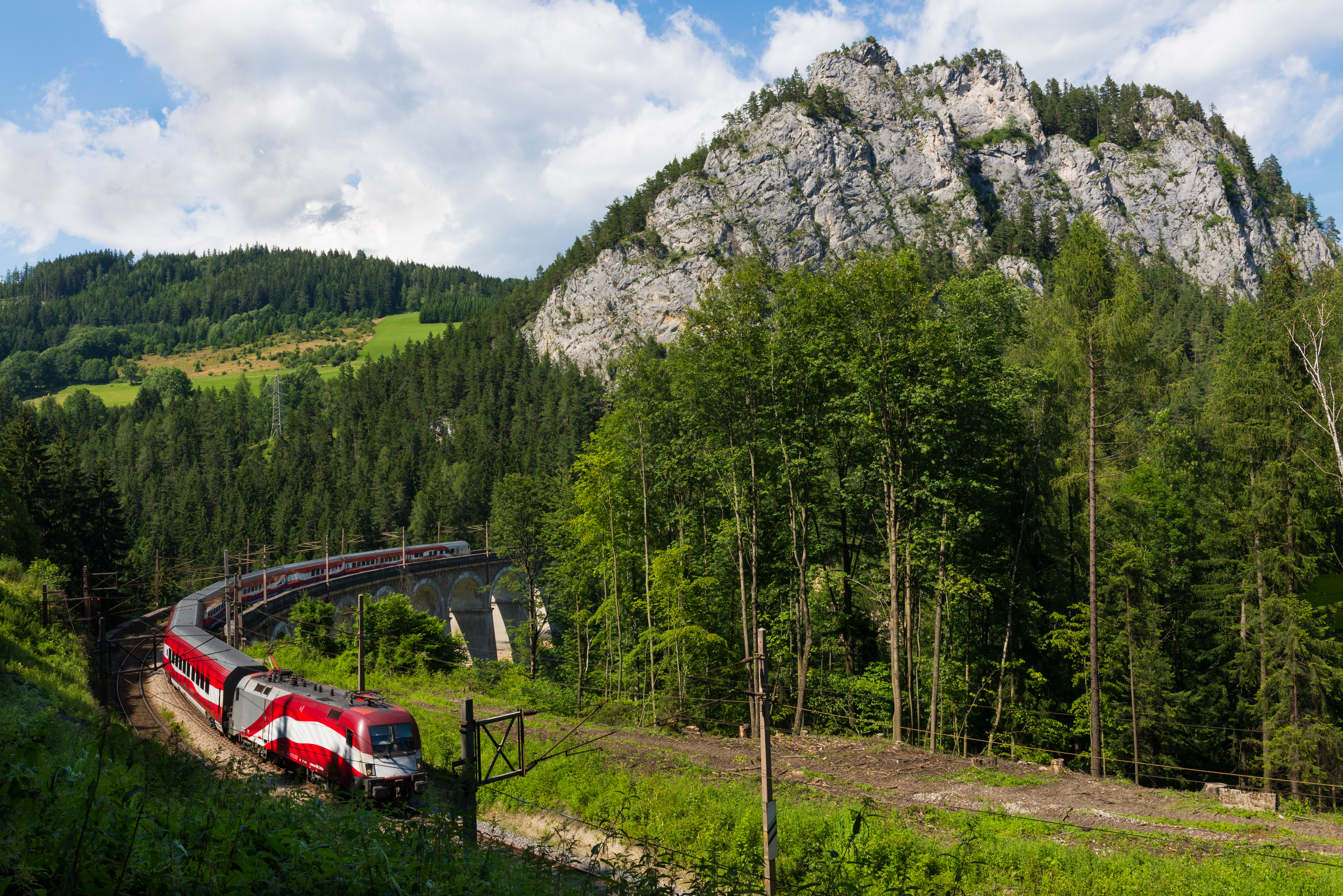 Railjet unit 49 crosses the Kalte Rinne-Viadukt, continuing upwards the slope of Roter Berg towards Semmering on the slgihtly cloudy afternoon of July the 9th, 2016. The Kalte Rinne-Viadukt and the Polleroswand rock face are two iconic elements of the Semmering railway. The train is painted in a commemorative livery for the 175 year anniversary of the commissioning of the first railway in Austria.